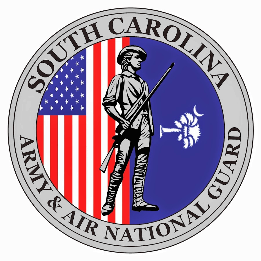 Logo of the U.S. South Carolina Army & Air National Guard.